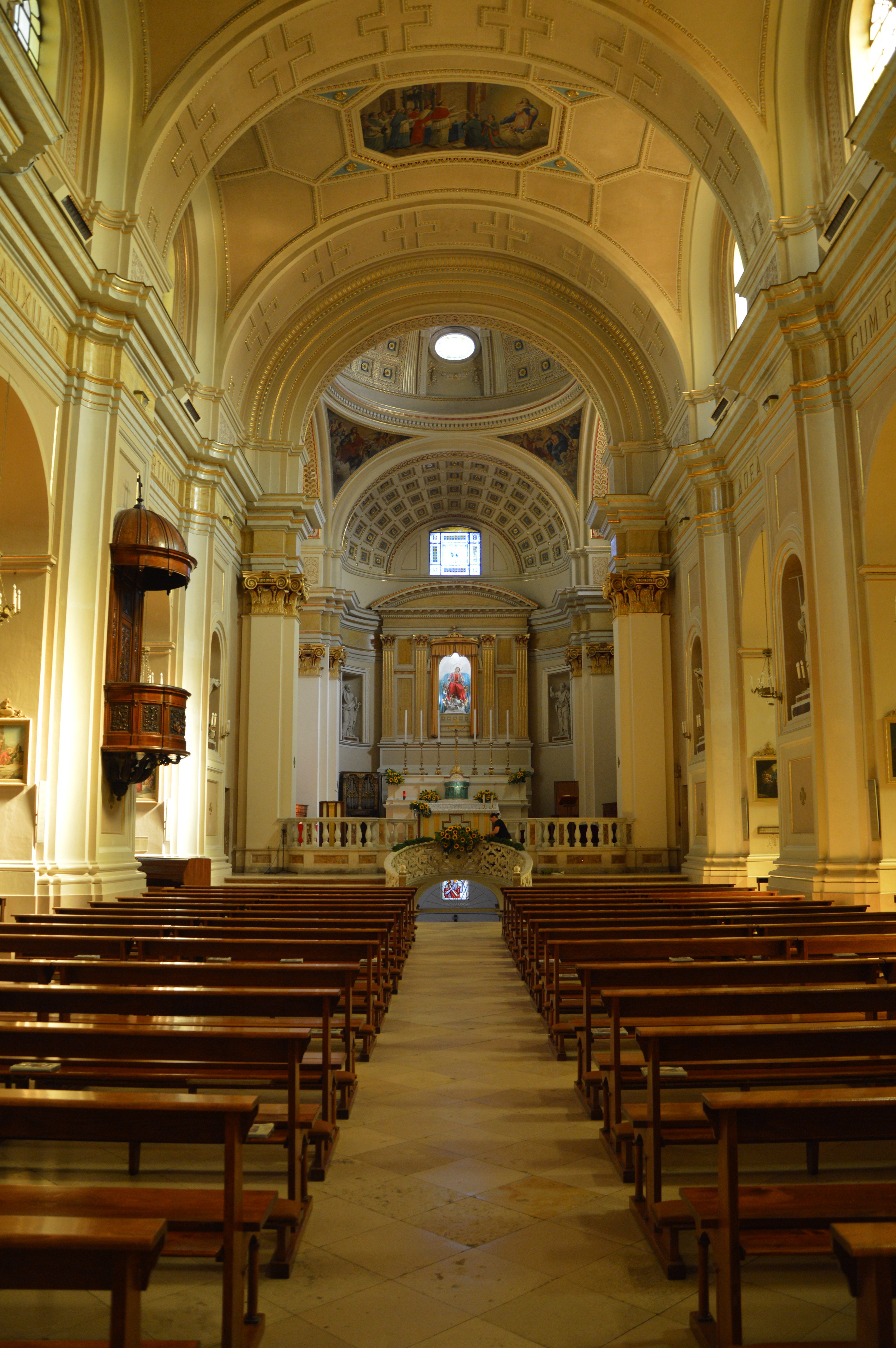 Vasto, chiesa di Santa Maria Maggiore, interno.